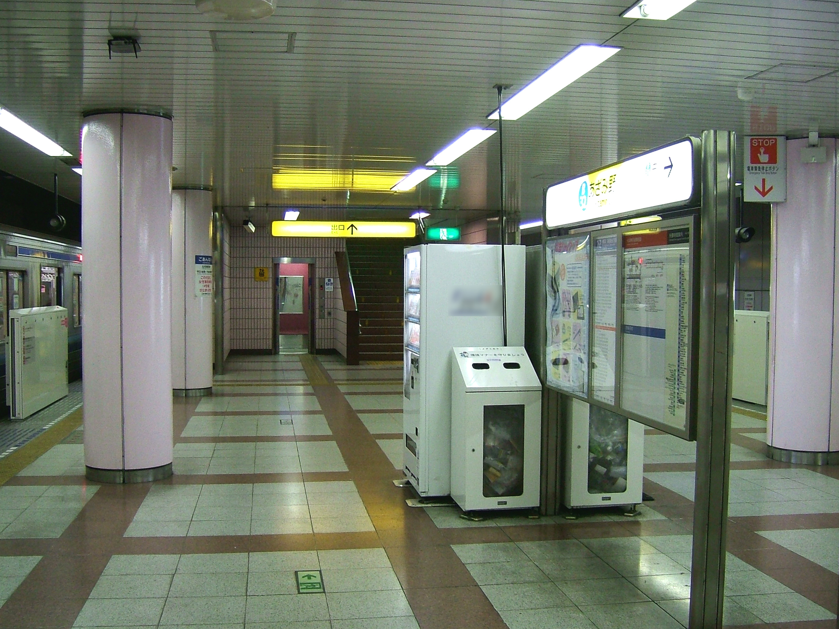 Azamino Station platform (Yokohama Municipal Subway Blue Line)